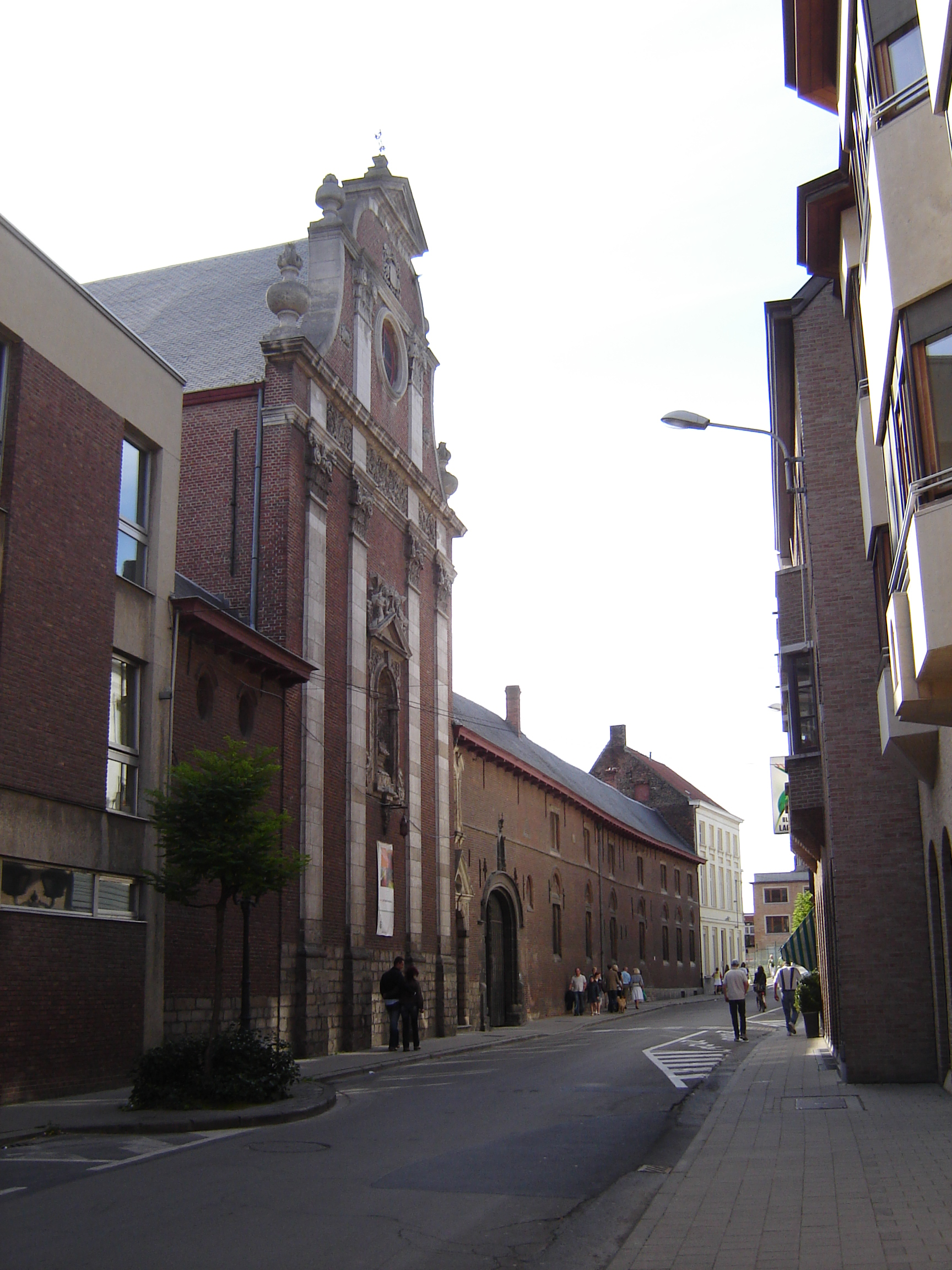 Onze-Lieve-Vrouwhospitaal ("Hospital of Our Lady") in Kortrijk. Front façade from 17th century. Kortrijk, West Flanders, Belgium.